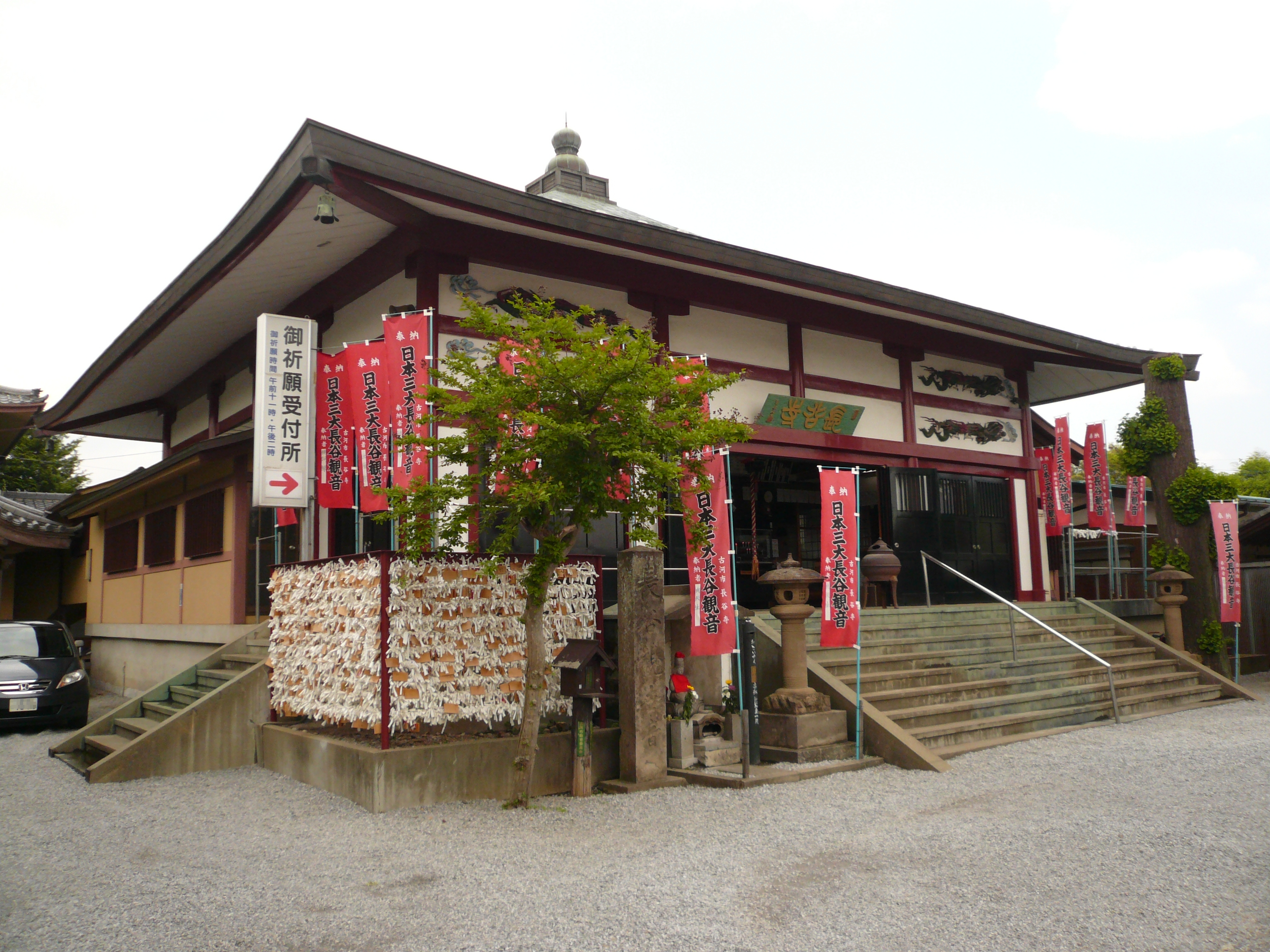 Hase Kannon, Koga, Ibaraki, Japan